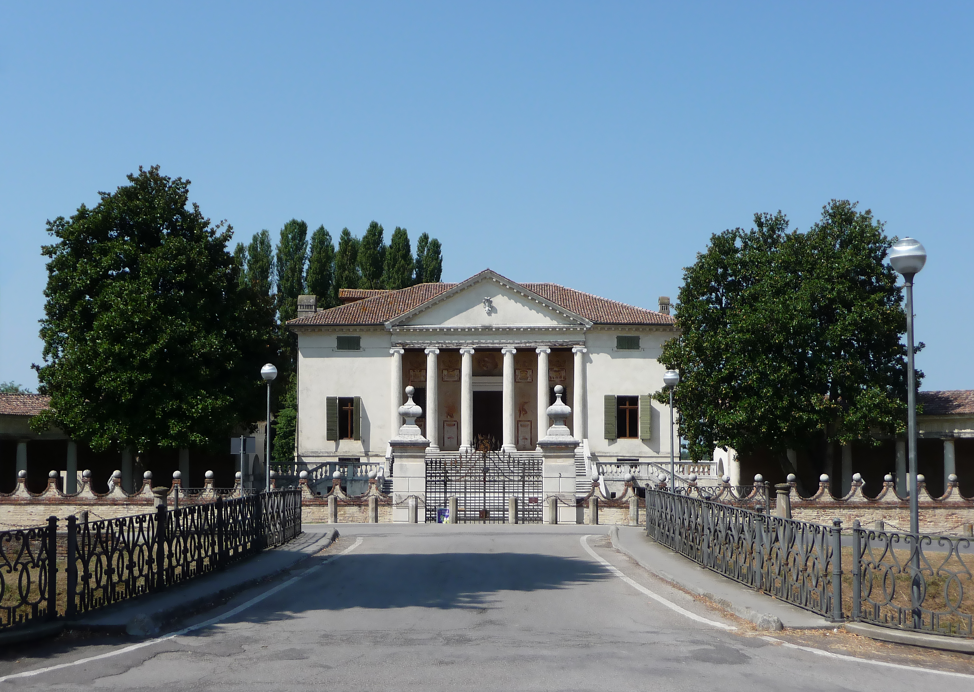 Villa Badoer in Fratta Polesine, province of Rovigo, Italy, designed by Andrea Palladio in 1554 and built 1556-1563.